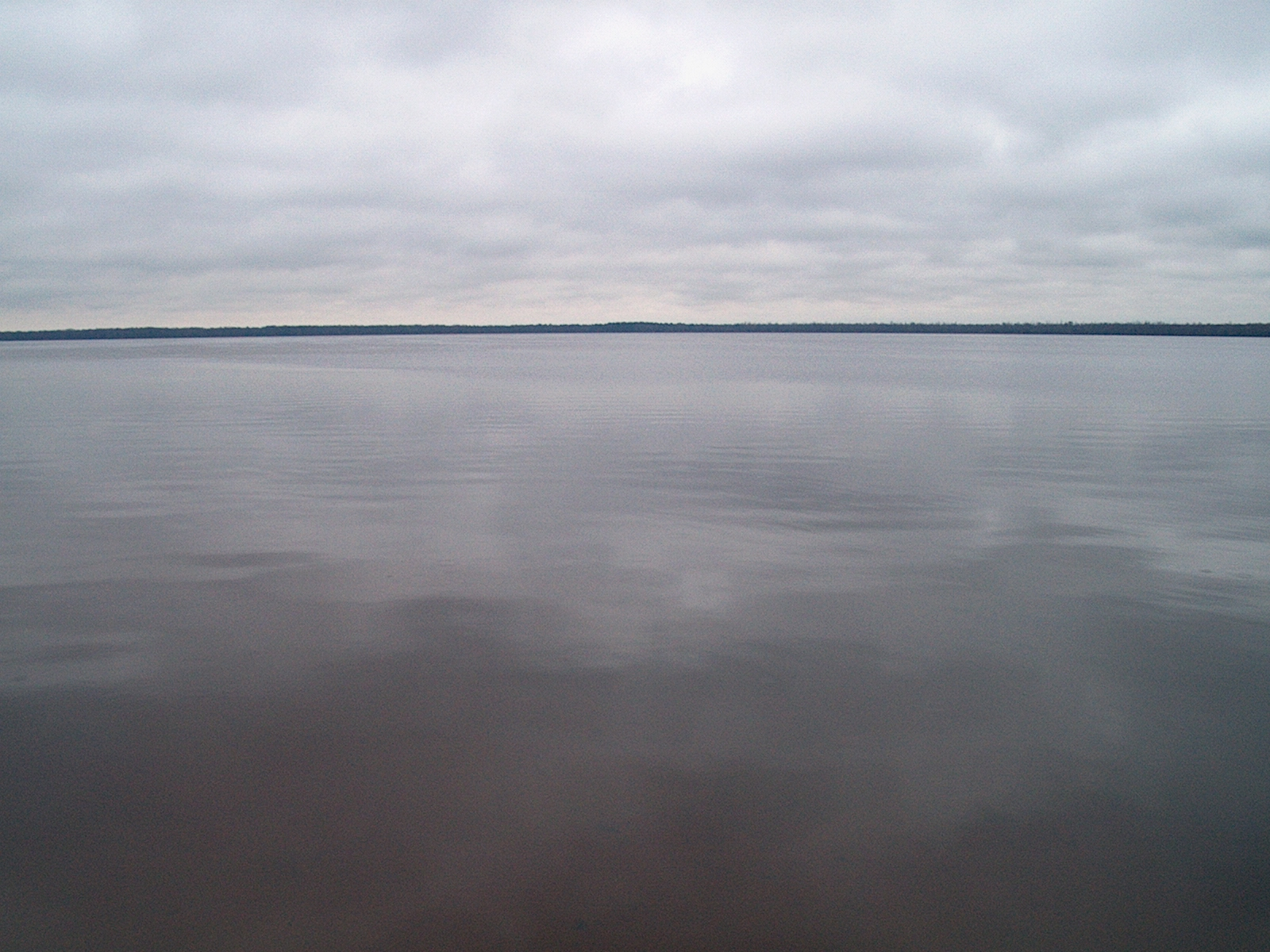 Lake Drummond